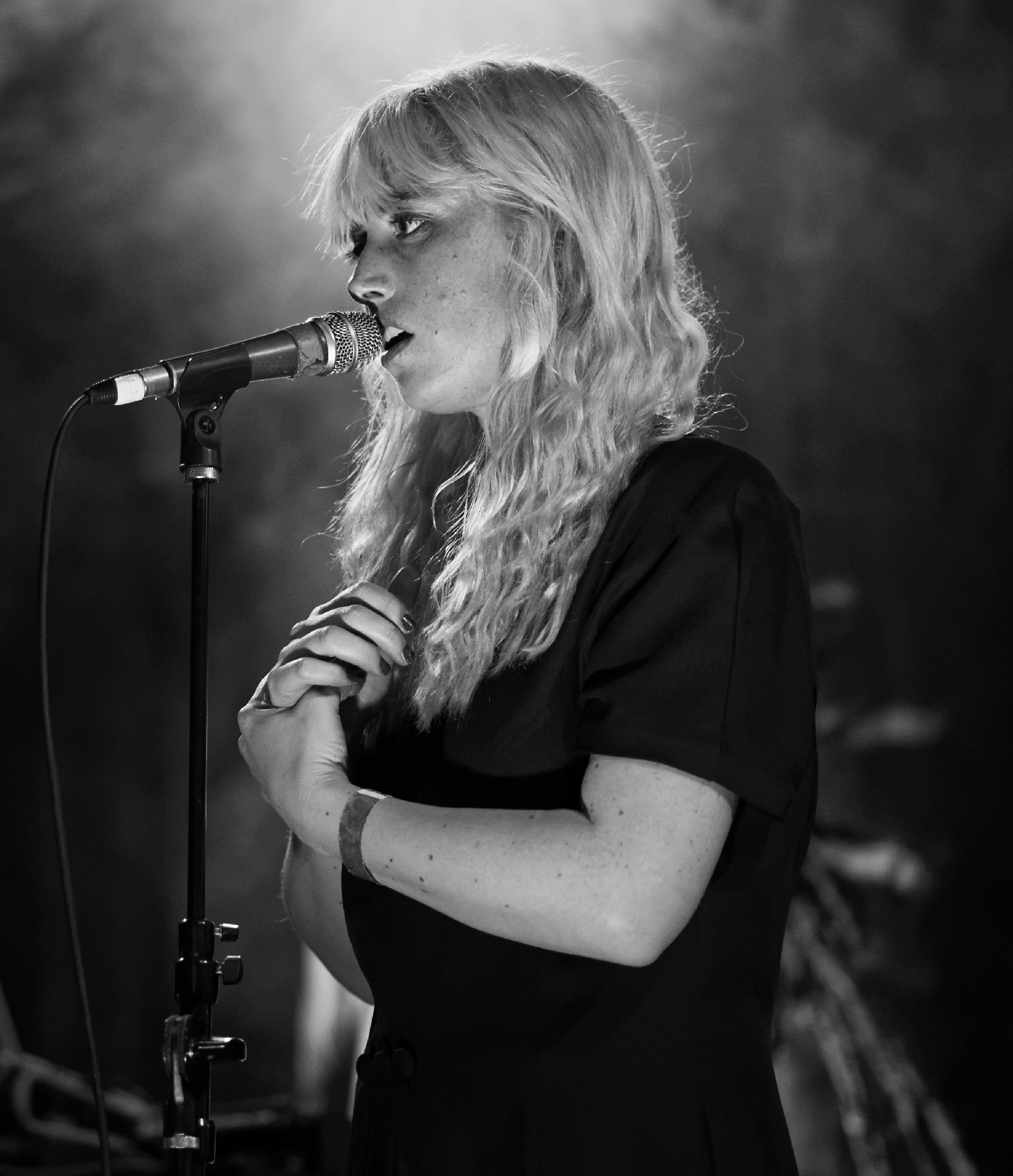 Phebe Starr at the Bootleg Theater